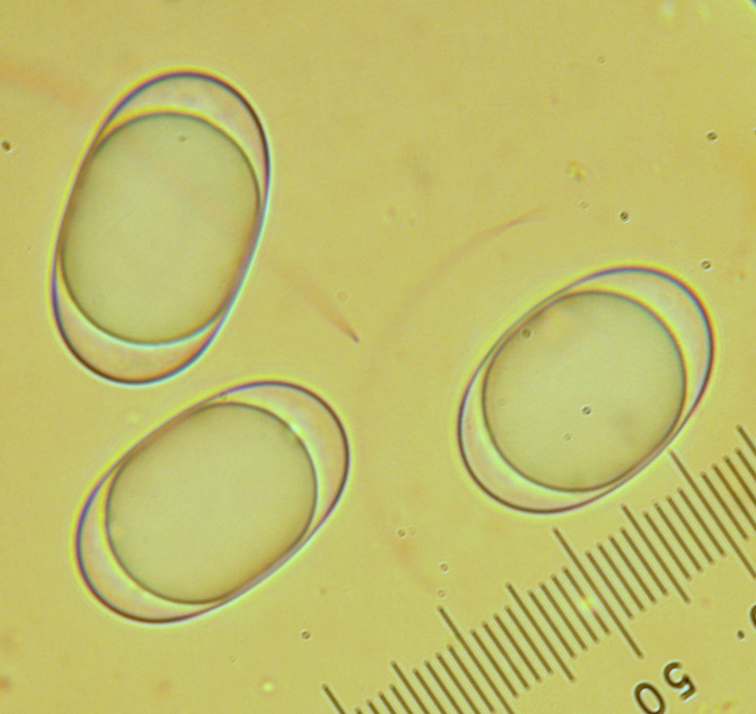 Helvella leucomelaena (Pers.) Nannf. Image location: Jenkinson Lake, El Dorado Co., California, USA Spores ~ 18.3-24.0 X 12.9-14.9 microns, ellipsoid to elongate, smooth and uniguttulate. Recognized by sight For more information about this, see the observation page at Mushroom Observer.